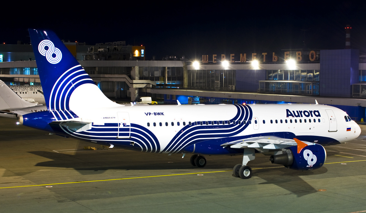 First Airbus A319 for Aurora at Sheremetyevo Airport